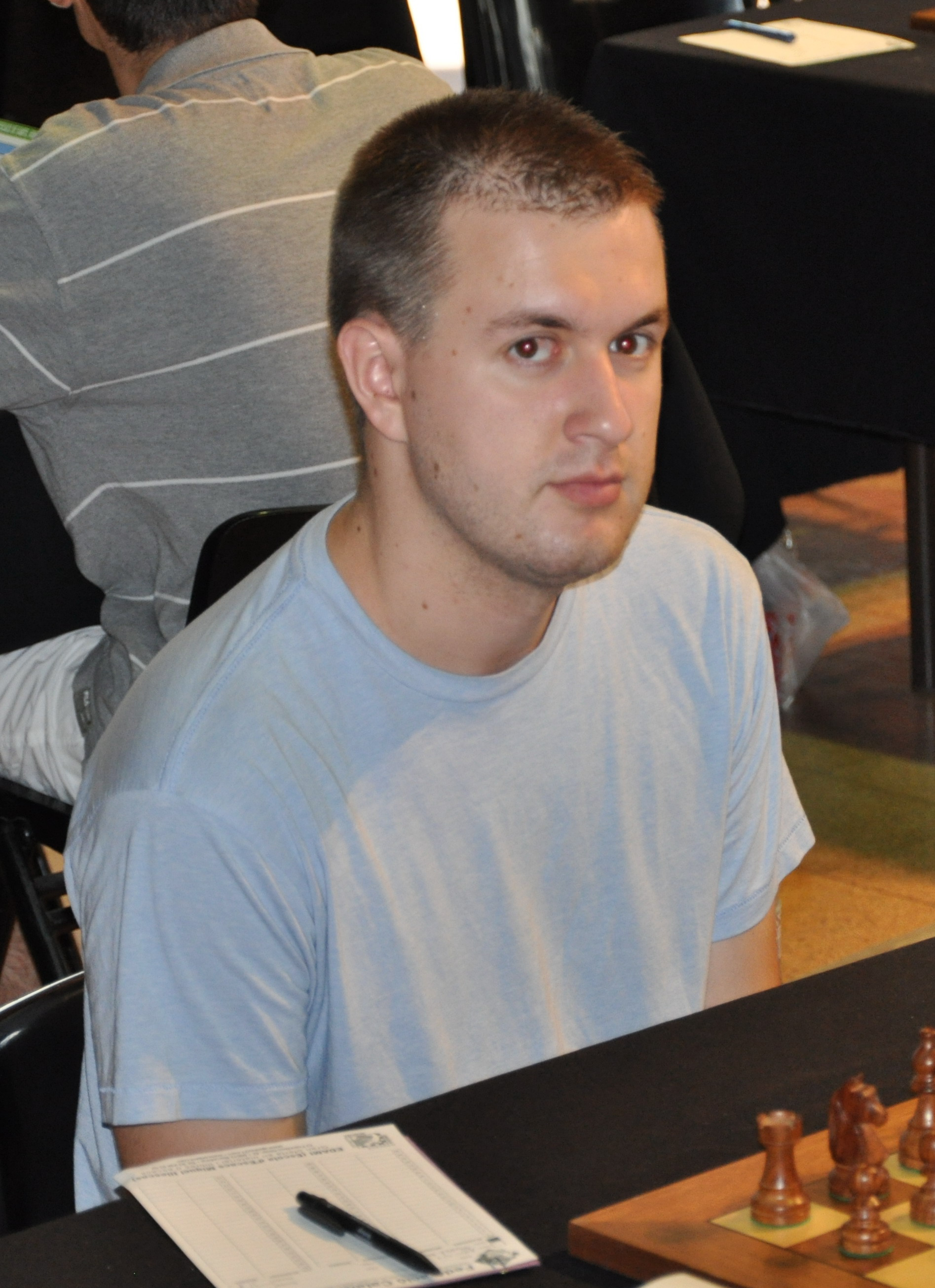 GM Mark Bluvshtein (Canada), XII Open Internacional de Sants, Hostafrancs i la Bordeta Grup A, Barcelona 2010